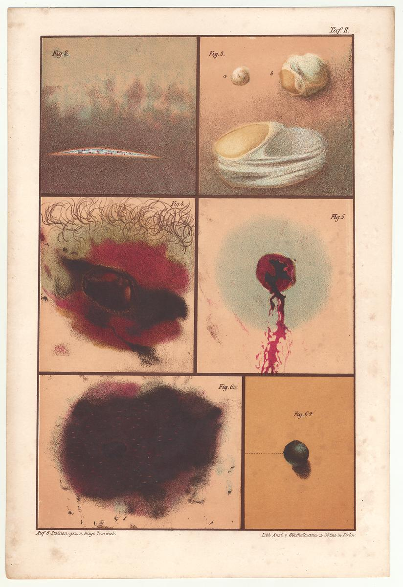 Bloodstain, blisters, bullet holes, 1864. Medical professor Johann Ludwig Casper was perhaps the first author to use richly colored lithographs to illustrate forensic pathology. The plates show specific postmortem examinations, some of them experiments on cadavers.